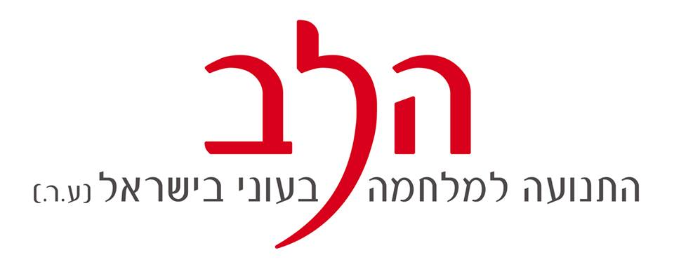 Logo of Association